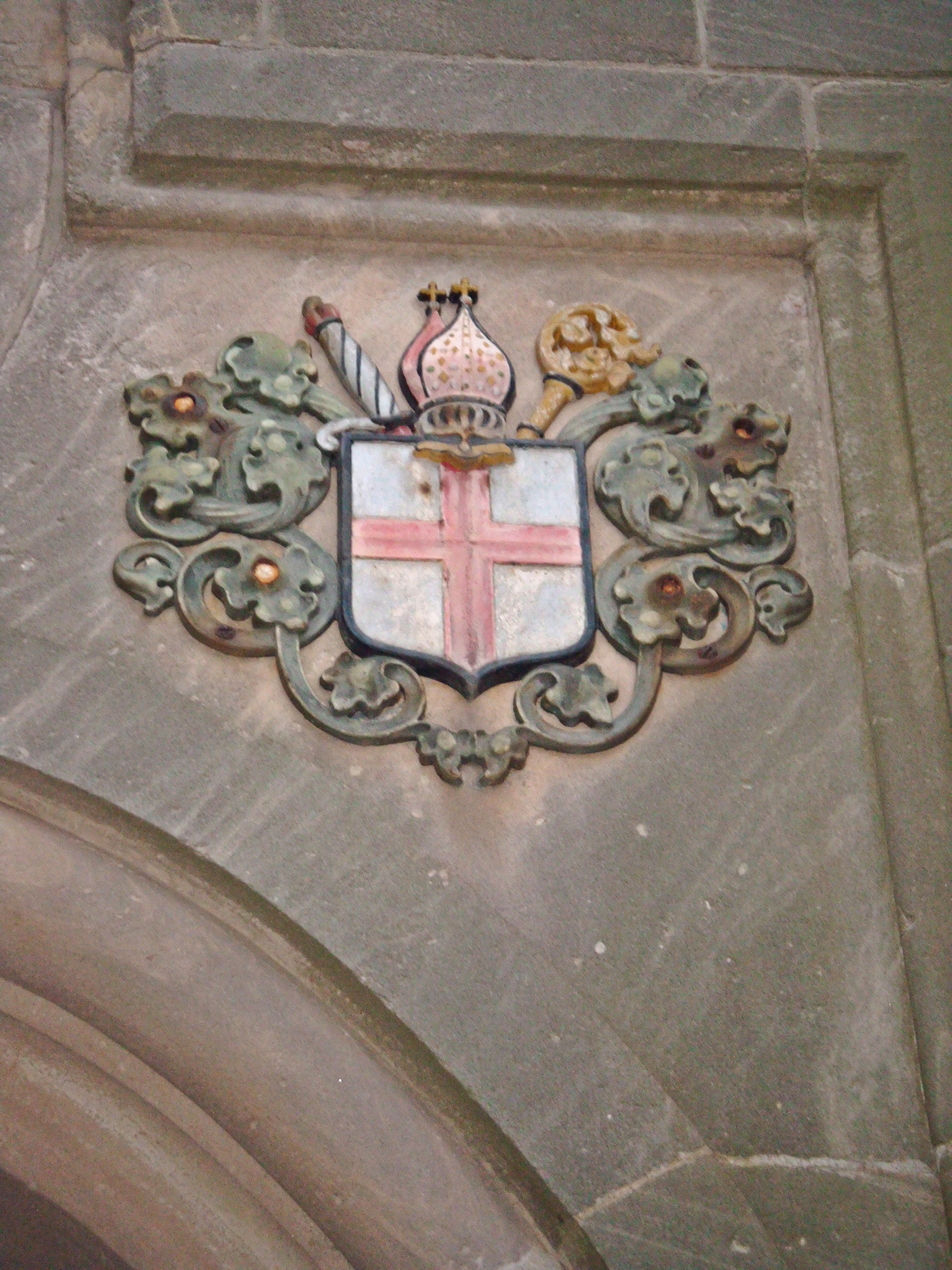 Königskreuzkapelle Göllheim, Wappen Kurfürst von Trier